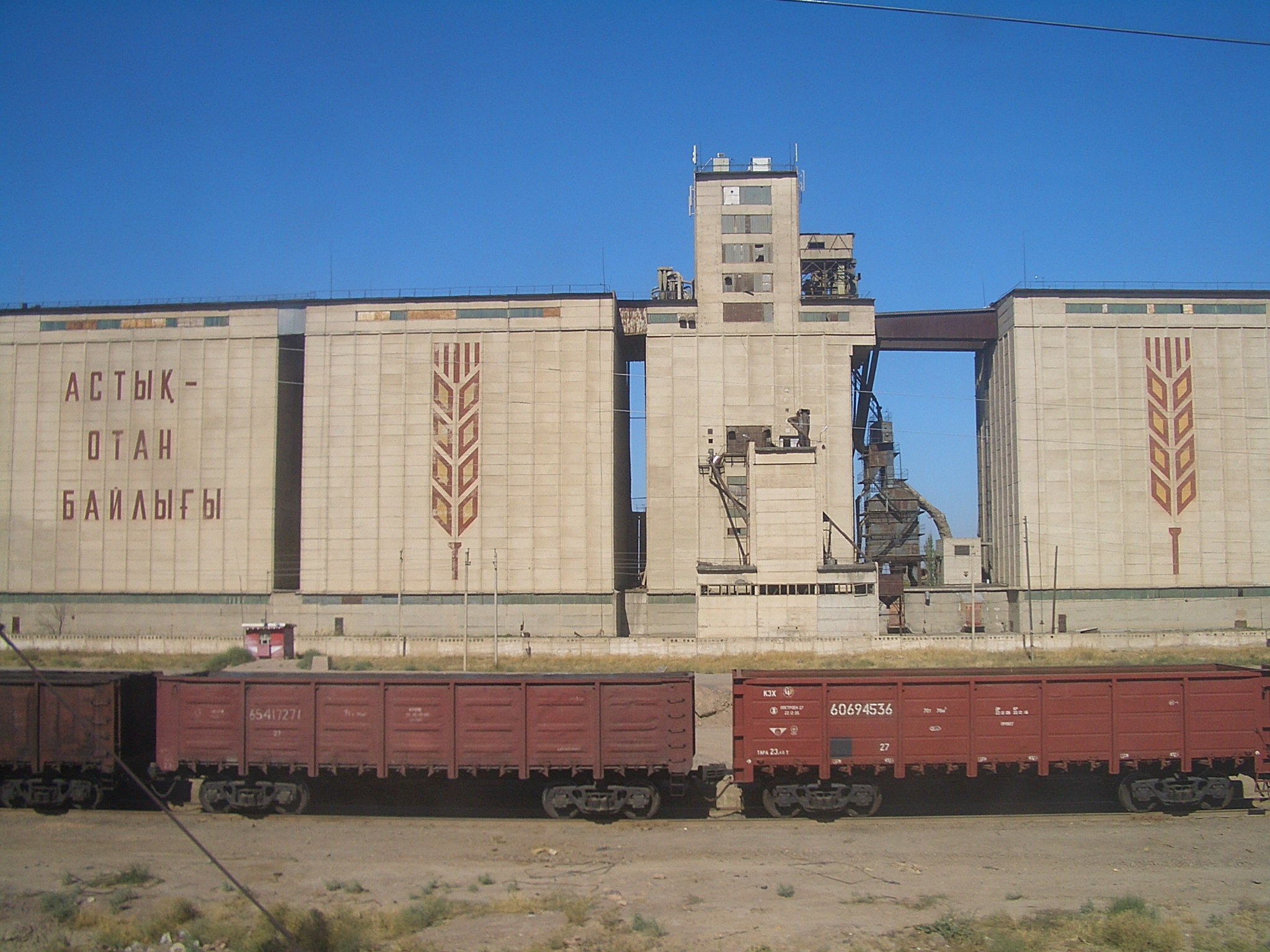 Grain elevator just north of the Shu station, Kazakhstan